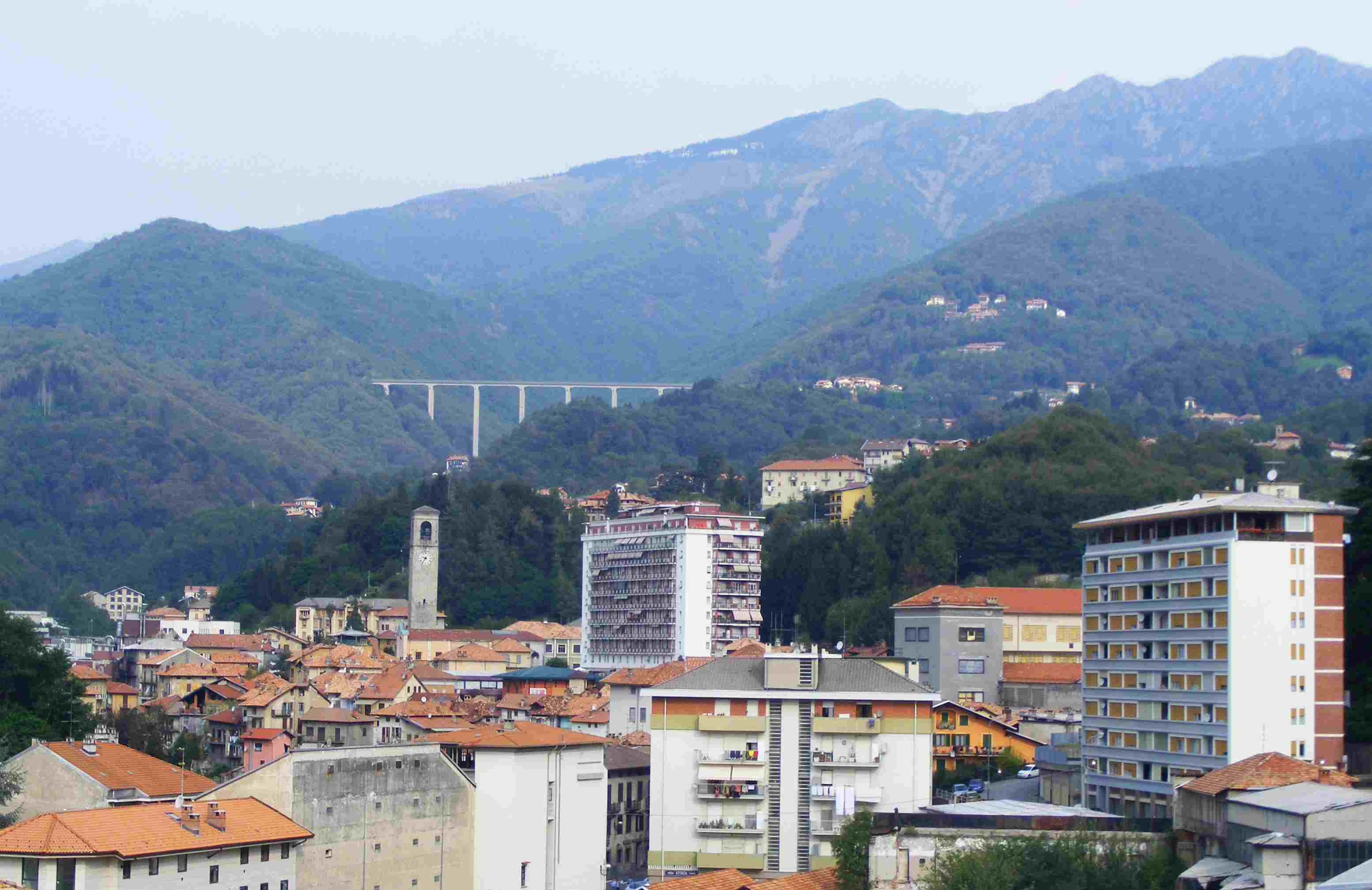 panorama of Vallemosso (Piedmont, Italy); Pistolesa bridge in the background